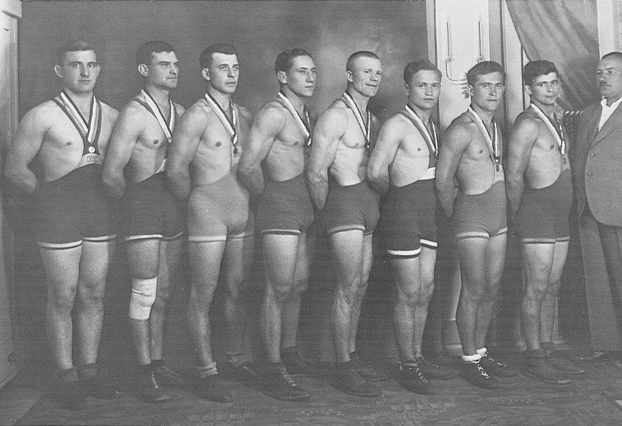 The great Dorogian wrestling team in 30's